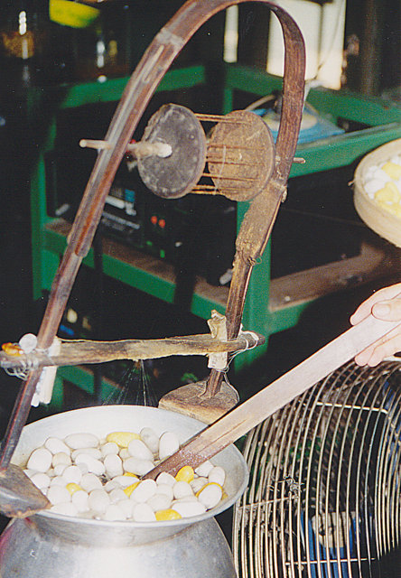 Boiled silkworm cocoons in Thailand